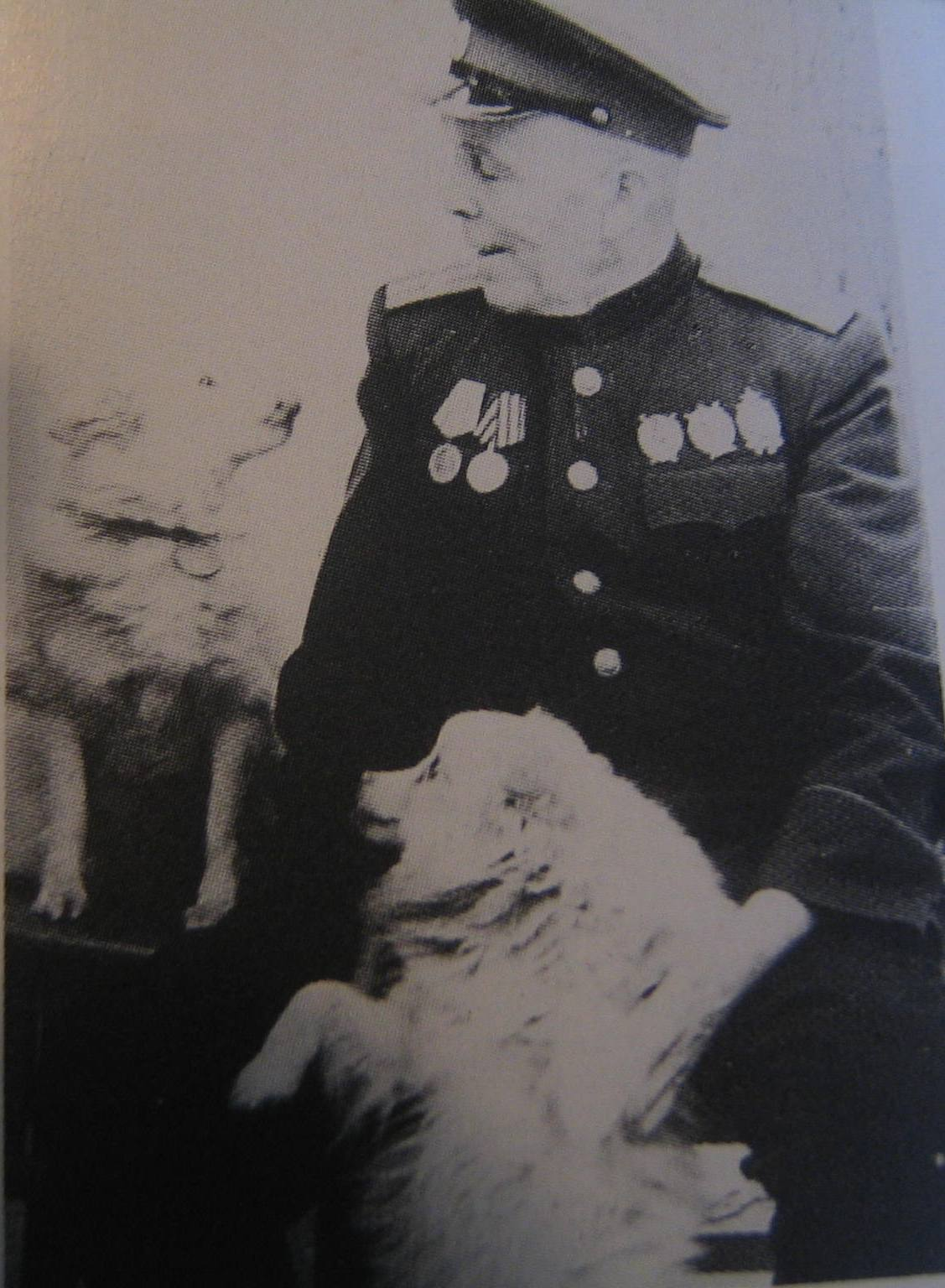 Finnish general of the red army Valter Valli